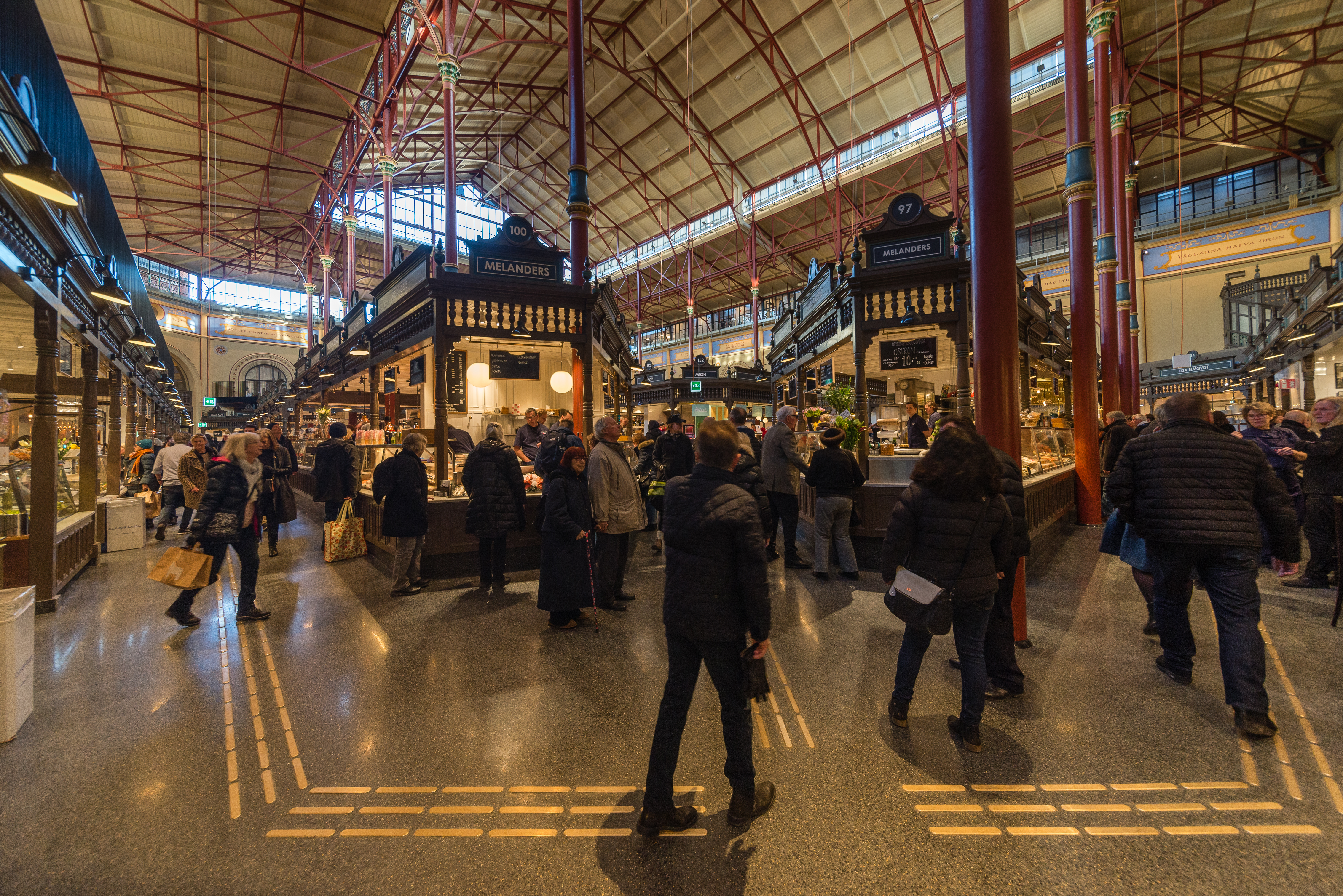 Östermalms saluhall.